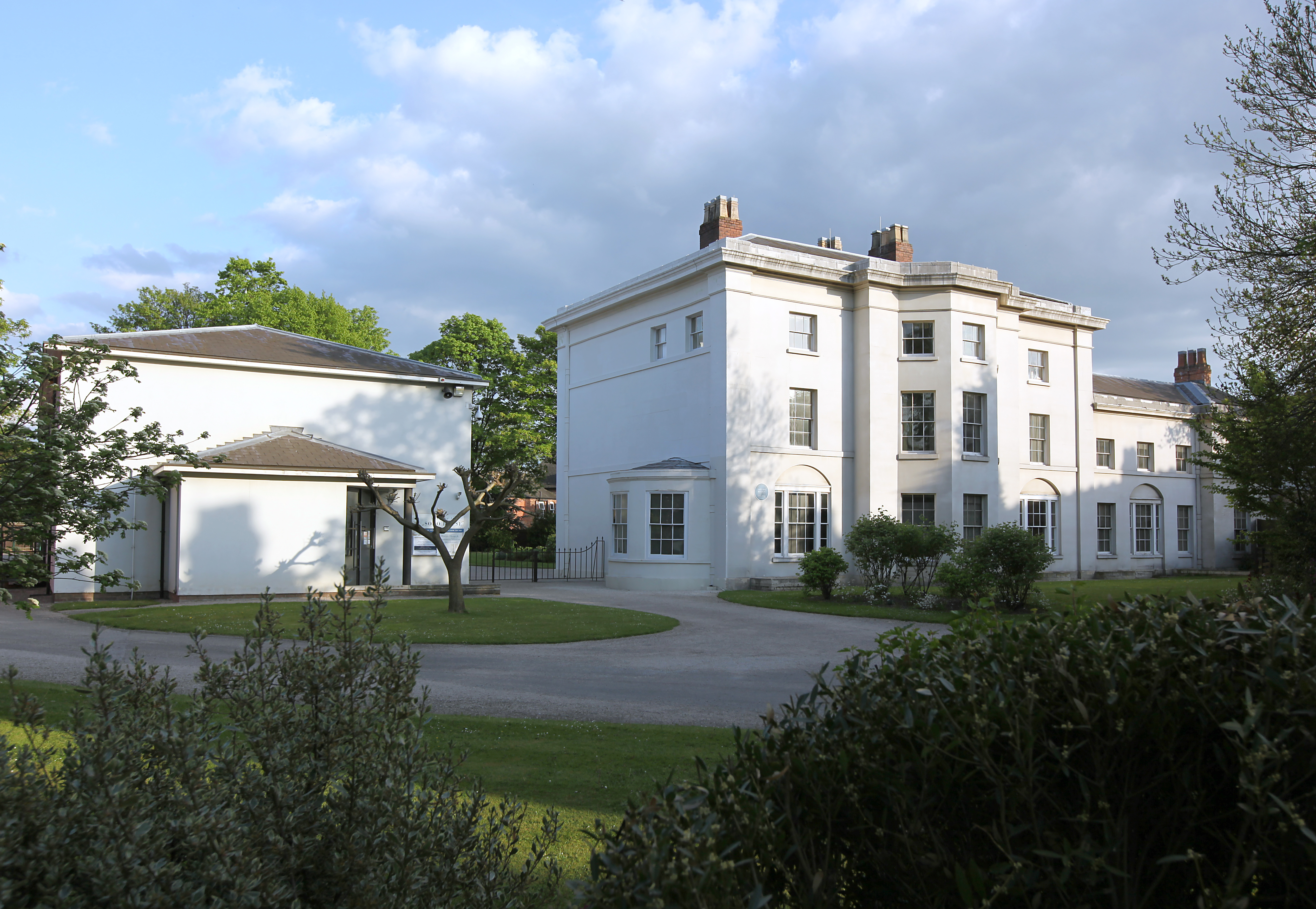 Matthew Boulton's home aka Soho House was also the meeting place of the Lunar society.